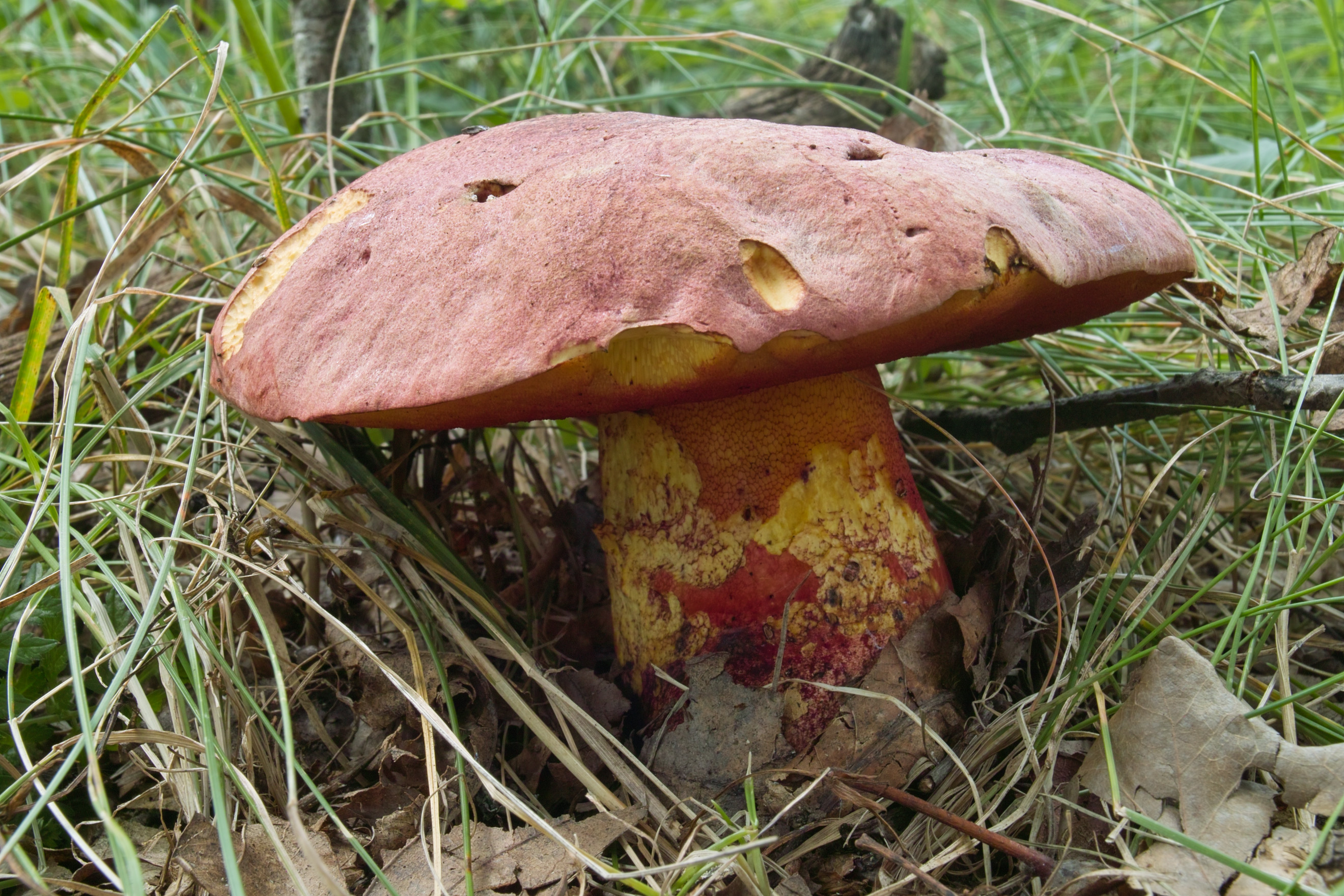 Boletus legaliae, Luční, Czech Republic